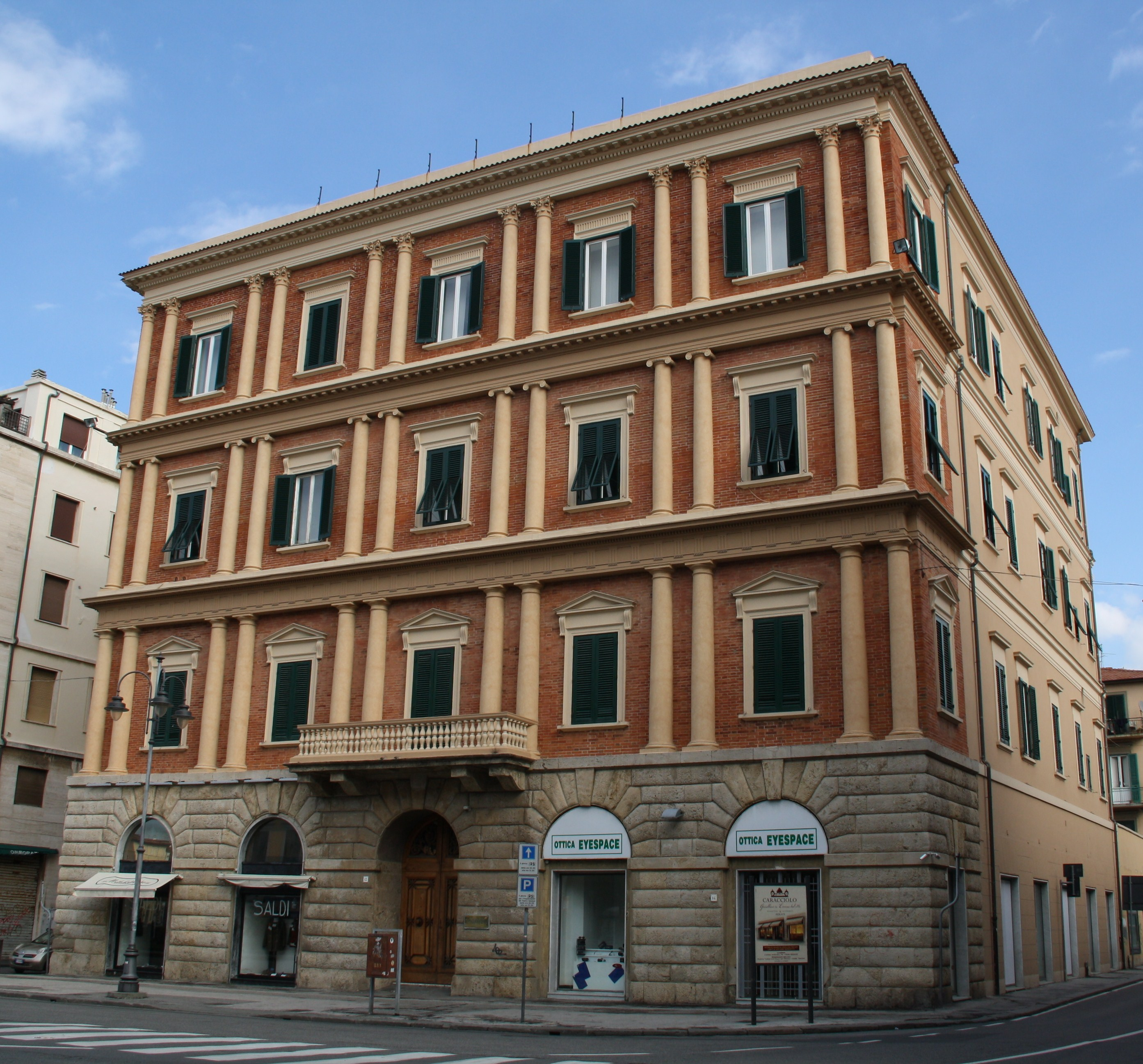 Italy, Livorno, Piazza Cavour, Palazzo Gragnani. It was built by Gragnani brothers in 1840 on a ground in front of the demolished “Porta del Casone” on the corner of what was then known as “Via della Pace”. The palace has a massive architecture with the façade horizontally quadripartite by the partition of the floors. The level ground has a reference to Renaissance style, with four openings surmounted by a round arch, while at the first floor a terrace is placed on the main door. In 1888 Carlo Orvieto was the new owner and in 1911 the property passed to Giulia Orvieto. In 1914 it was sold to Eamanuele Rosselli and in 1952 to Società Liburna Pubblici Esercizi. In 1956 Gino Fremura bought the palace which transformed for his offices.